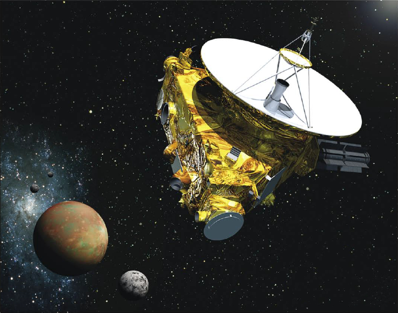 An artist's concept of New Horizons from Launch Press Kit